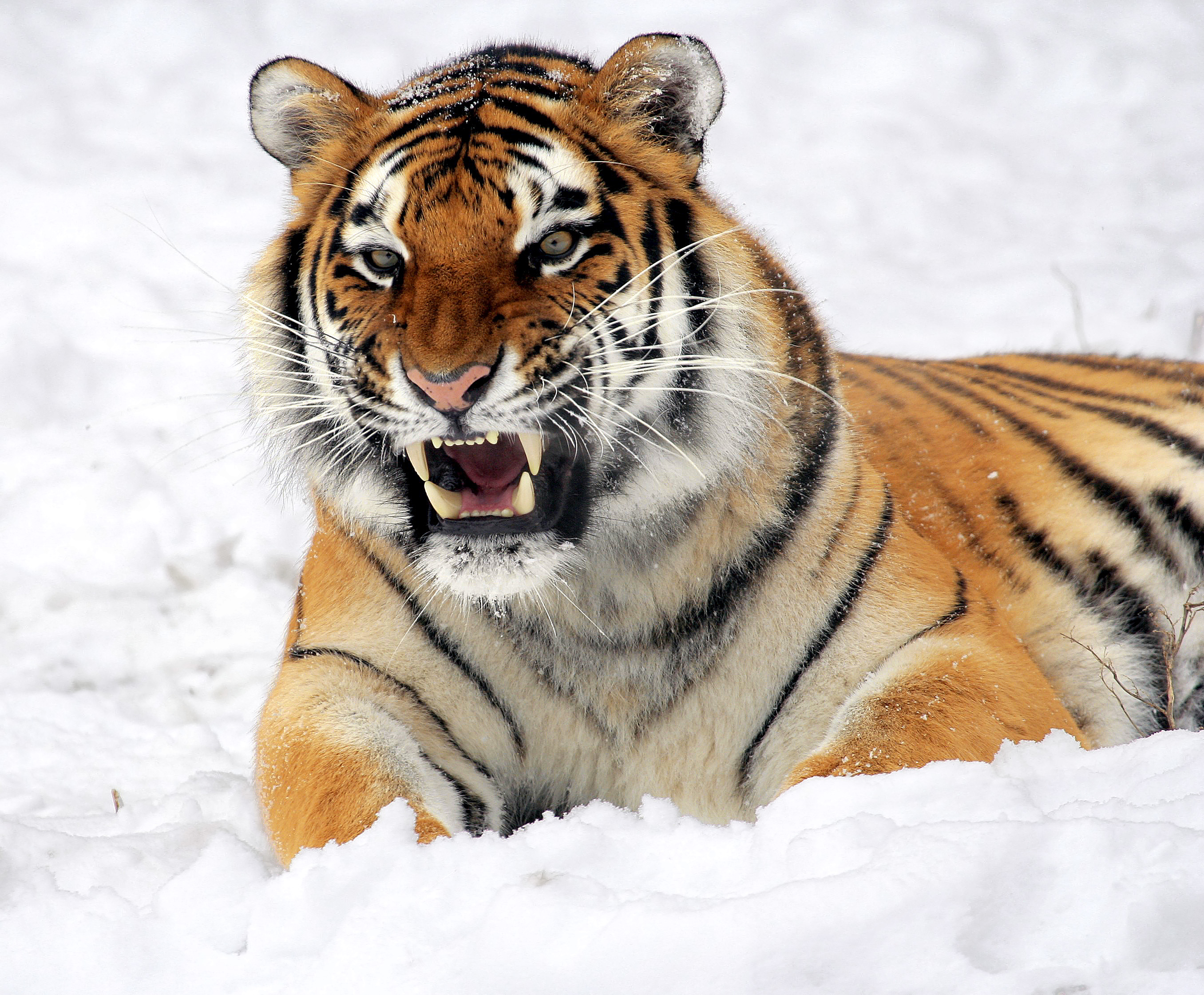 Amur tiger (Panthera tigris altaica) at the Buffalo Zoo. Cubs Thyme and Warner, with their mother Sungari. The cubs were born at the zoo to Sungari, and father Toma, on 7 October 2007.